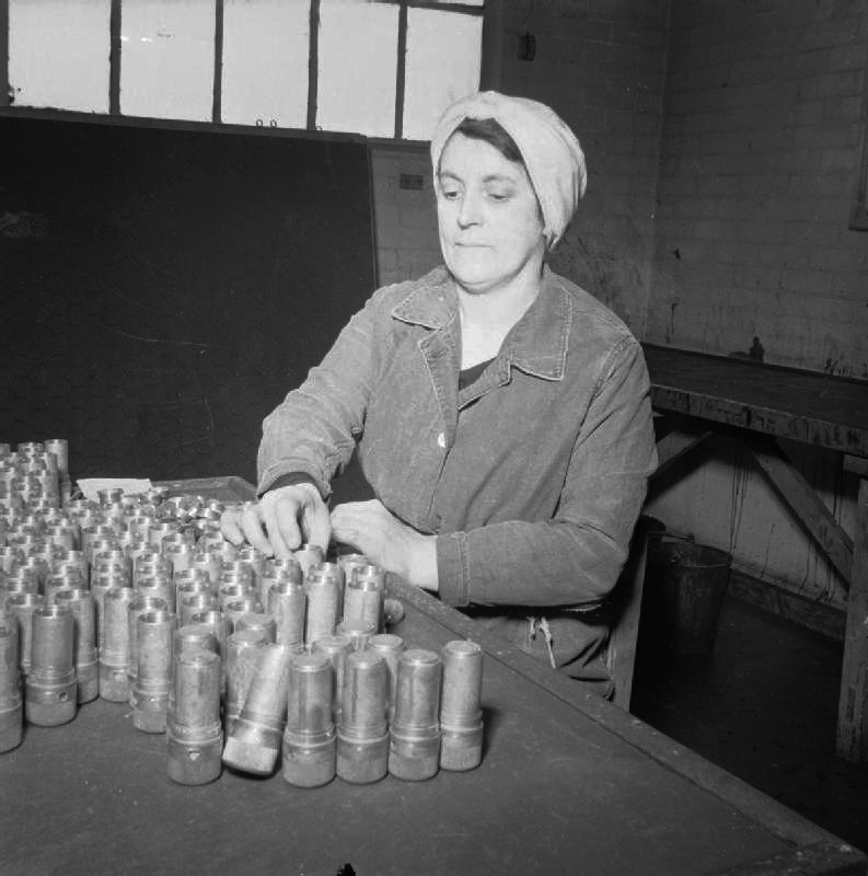 The Women Behind the Women- Munitions work at a Royal Ordnance Factory in the North of England, c 1942 War worker Mrs Wilkinson breaks down fuses at ROF Aycliffe, near Darlington, County Durham.